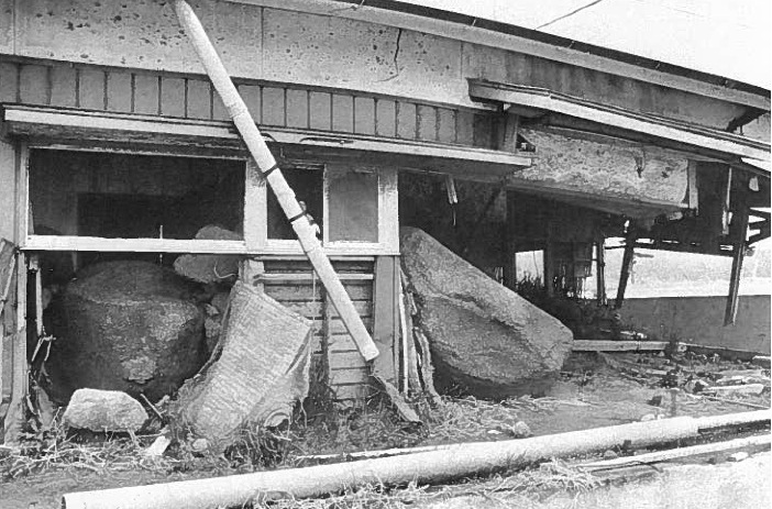 Original caption: Unzen volcano, Japan. House destroyed and partially buried by lahars in the Mizunashi River valley. Large rounded boulders are blocks of the new lave dome originally deposited by pyroclastic flows in the headwaters of the Mizunashi River and later remobilized by lahars. In this area, the threat of lahars during rainstorms caused thousands of people to evacuate their homes on many occasions.